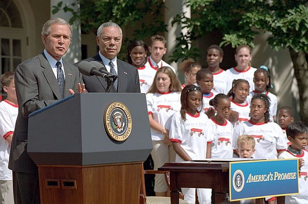 President Bush and Secretary of State Colin Powell hold a press conference about organization, America's Promise, in the Rose Garden July 9, 2001.